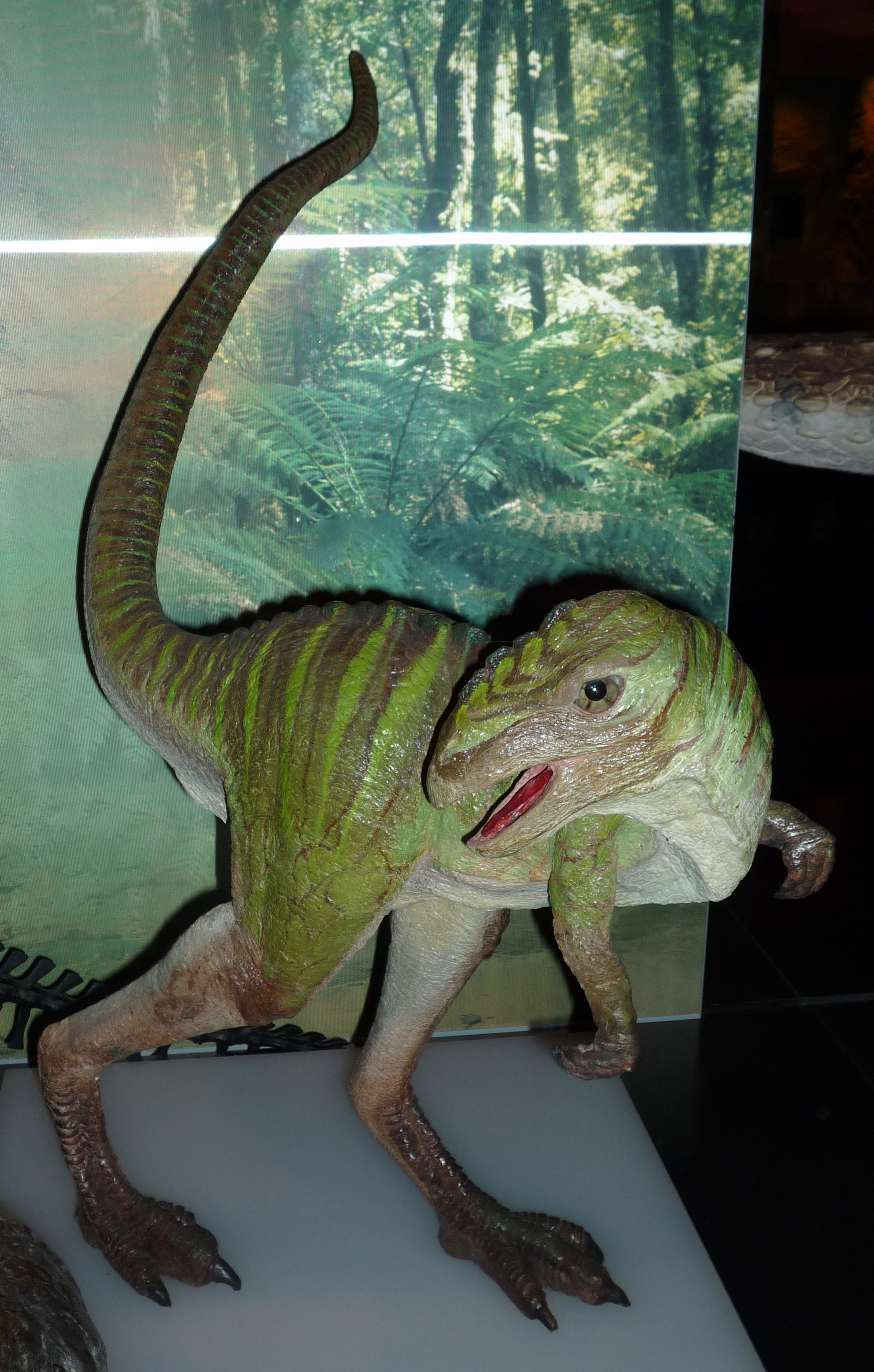 Cast life-sized model of a Hypsilophodon Foxii on display in the Australian Museum, Sydney.